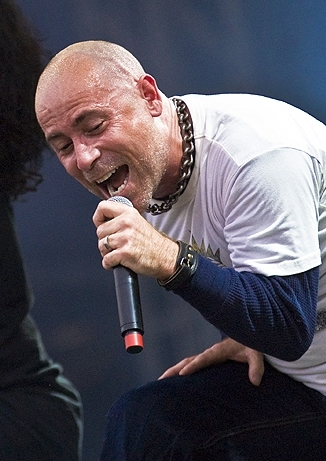 Anthrax performing at Sonisphere festival in Knebworth, 2009